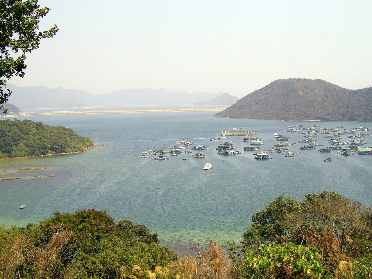 船灣海. Plover Cove with Plover Cove Reservoir in the background